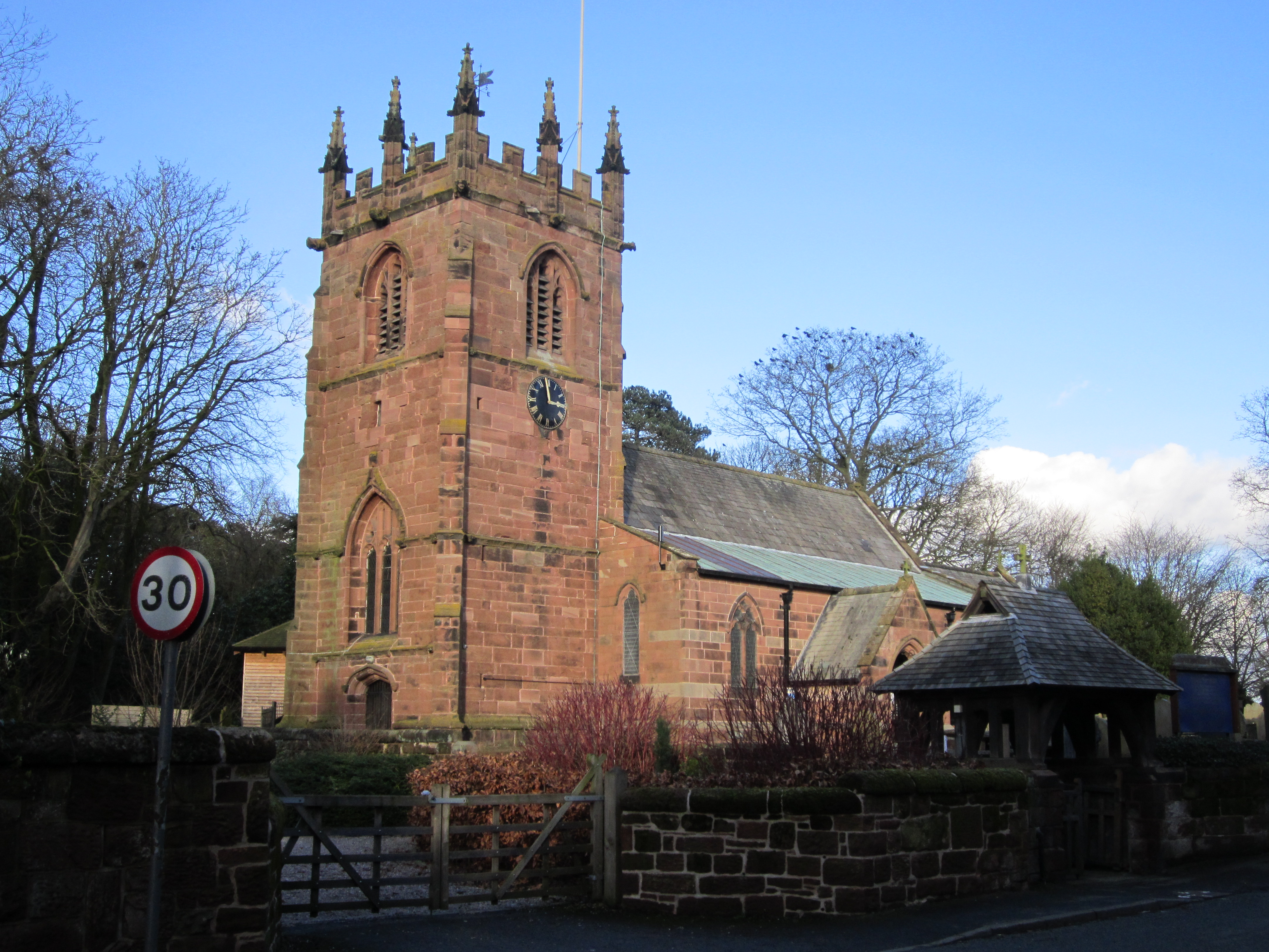 St Oswald's parish church, Backford, Cheshire, England, seen from the southwest